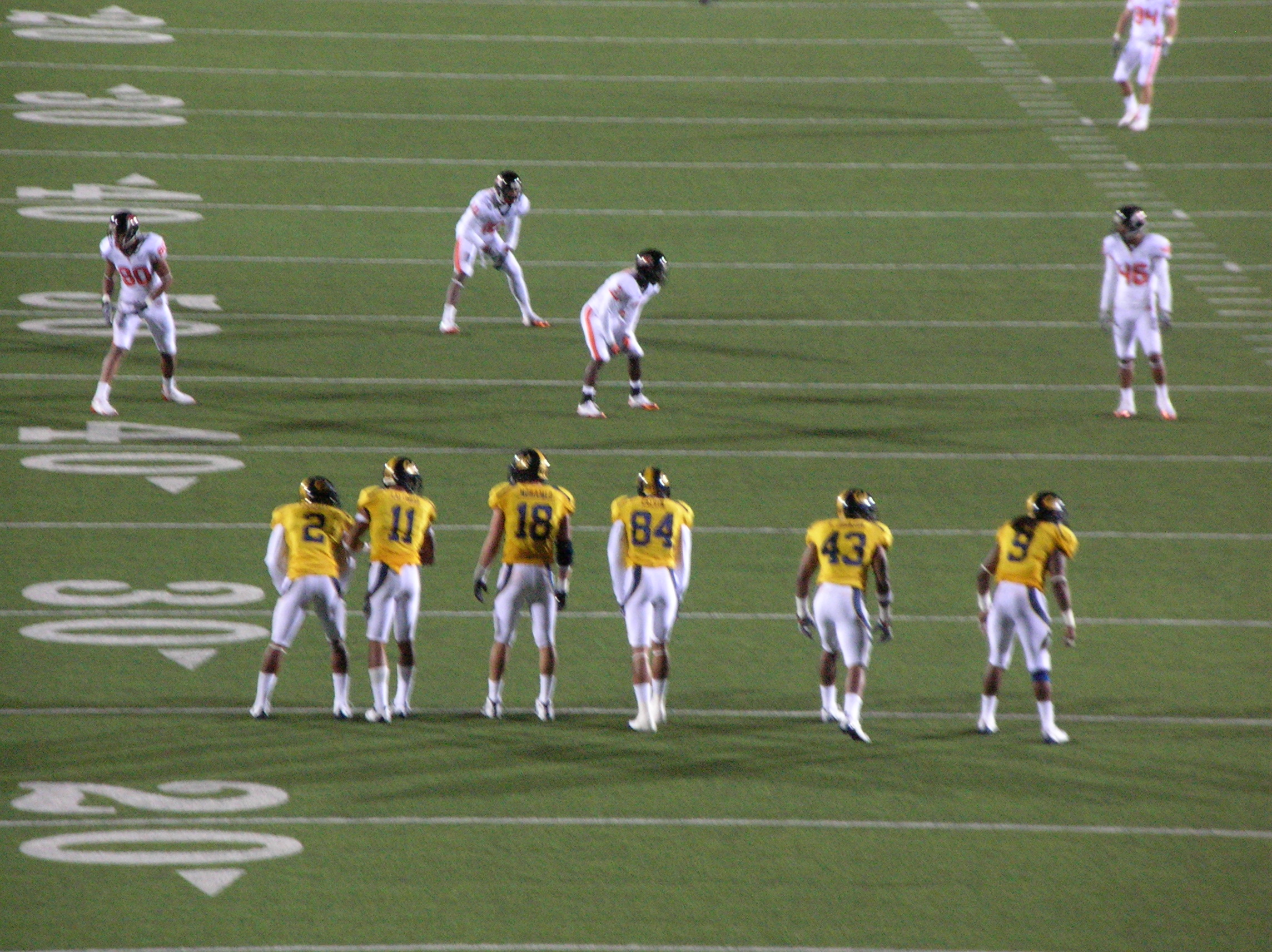 The California Golden Bears line up to attempt an onside kick during a home game against the Oregon State Beavers. The Beavers recovered the ball and won 31-14.